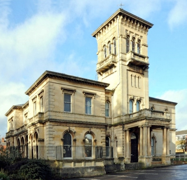 Hillfield House, Gloucester Hillfield House is now used as a local government office and it stands in its gardens which are now a public park known as Hillfield Gardens. Pevsner describes the house as 'the most elaborate house in Gloucester'. It was built in an Italianate style by John Giles in 1867-9 for the timber merchant Charles Walker. The house is a Grade II listed building.